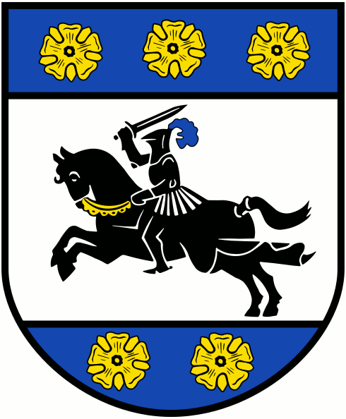 Coat of arms of the municipality Harsefeld in Lower Saxony, Germany.